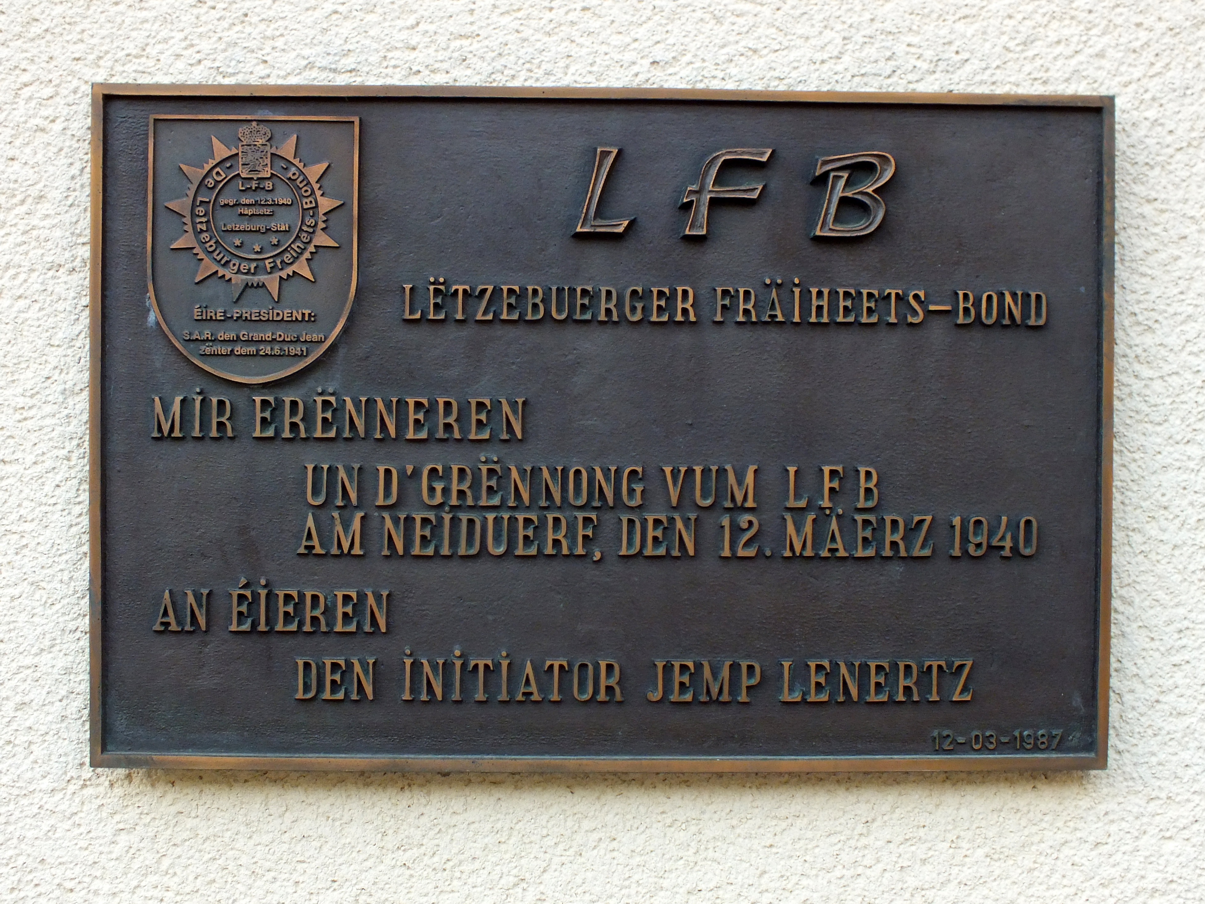 Commemoration of the formation of the "Letzeburger Freihétsbond" (LFB), 12th March 1940 in Neudorf.